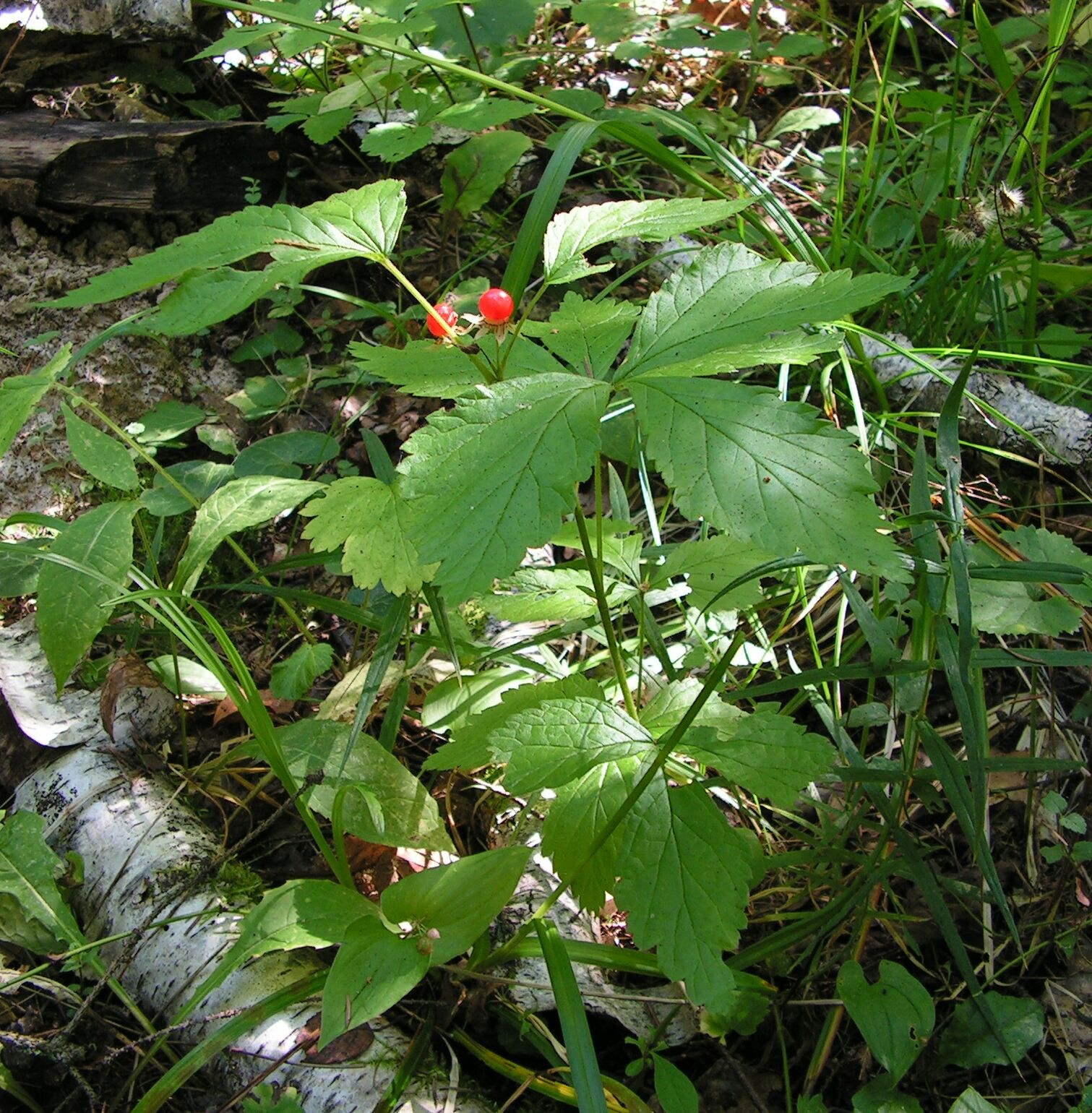 Rubus saxatilis. Moscow region, Russia.